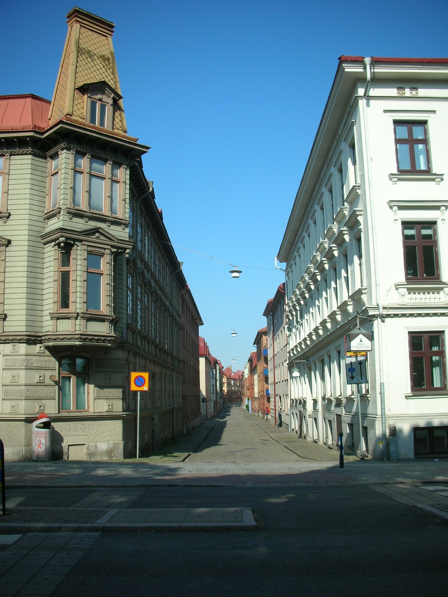 Haga Östergata. As seen from Sprängkullsgatan 5.